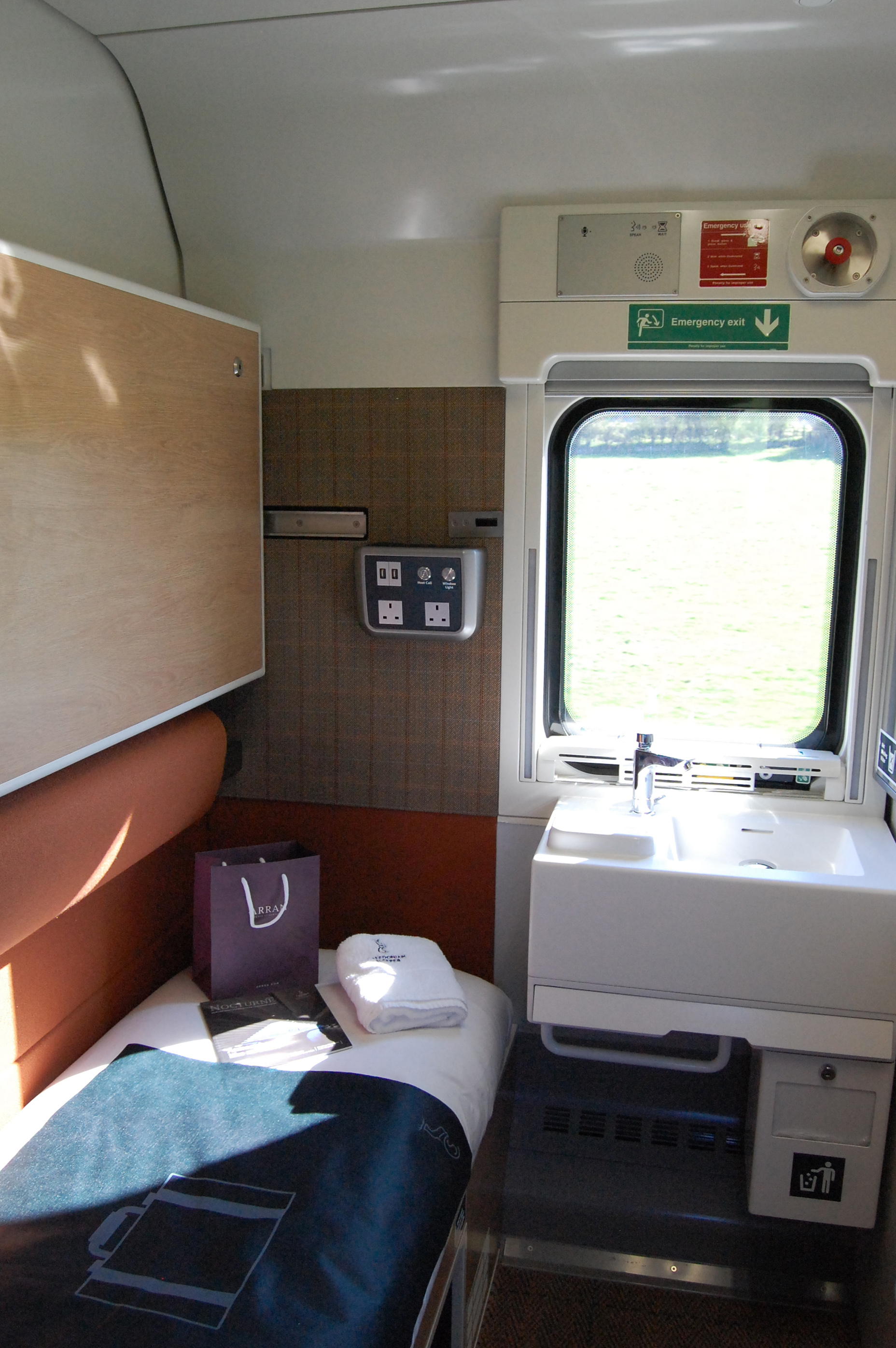 Caledonian Sleeper Mk5 Club room set up for single occupancy.